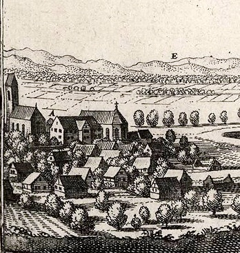 Heitersheim 1644